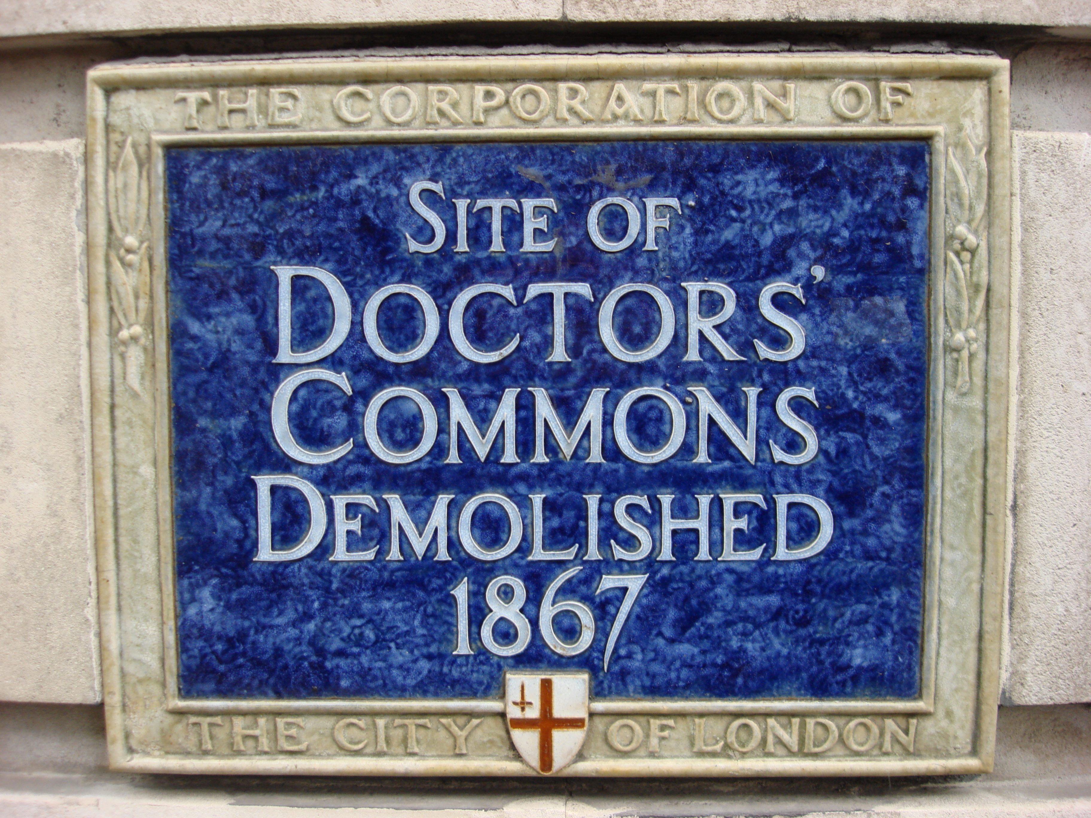 Plaque marking the site of the former Doctors' Commons. This Plaque is located on the north side of Upper Thames Street and marks the site of the now demolished Doctors' Commons. Also called the College of Civilians, The Doctors' Commons was a society of lawyers practising civil law in London. The society had buildings with rooms where its members lived and worked and a big library. Blue Plaques in The City of London differ from those elsewhere being rectangular rather than circular.